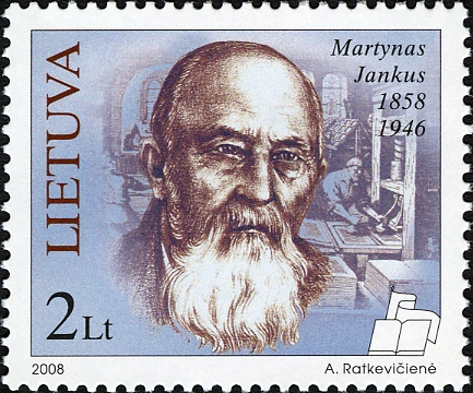 Stamps of Lithuania, 2008